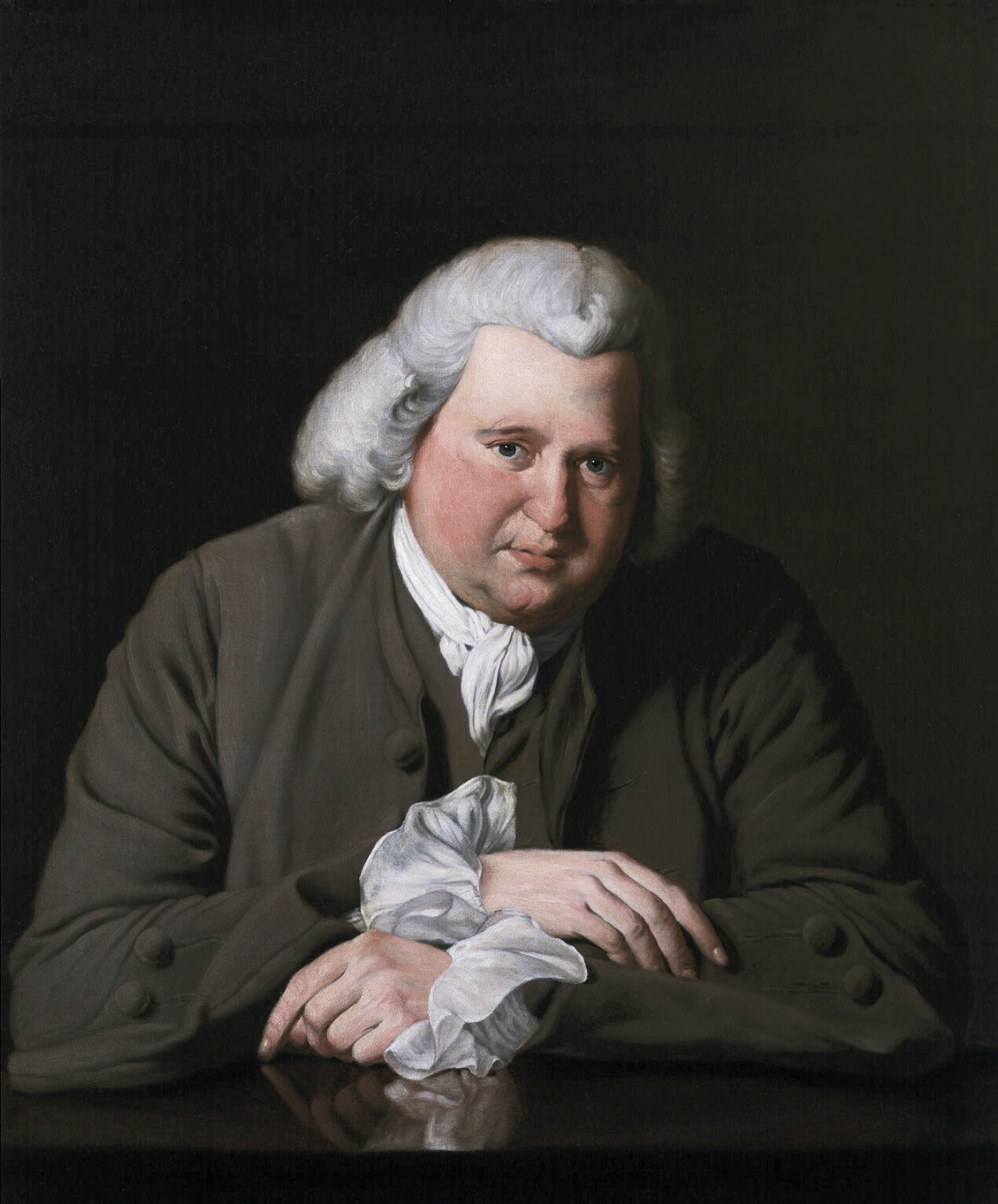 Erasmus Darwin oil on canvas 760 x 635 mm probably 1770s